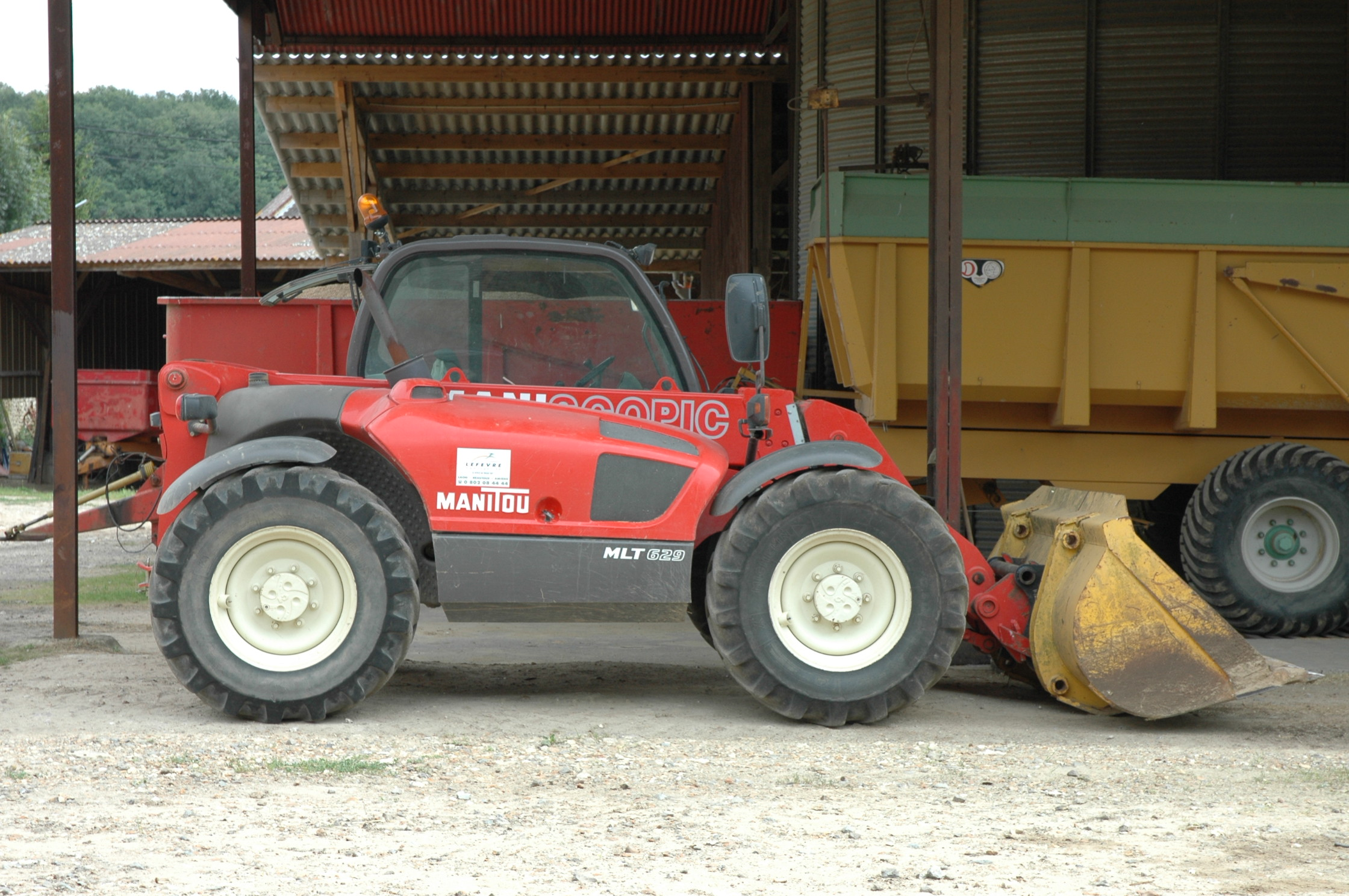 A ManiTou telescopic loader MLT 629